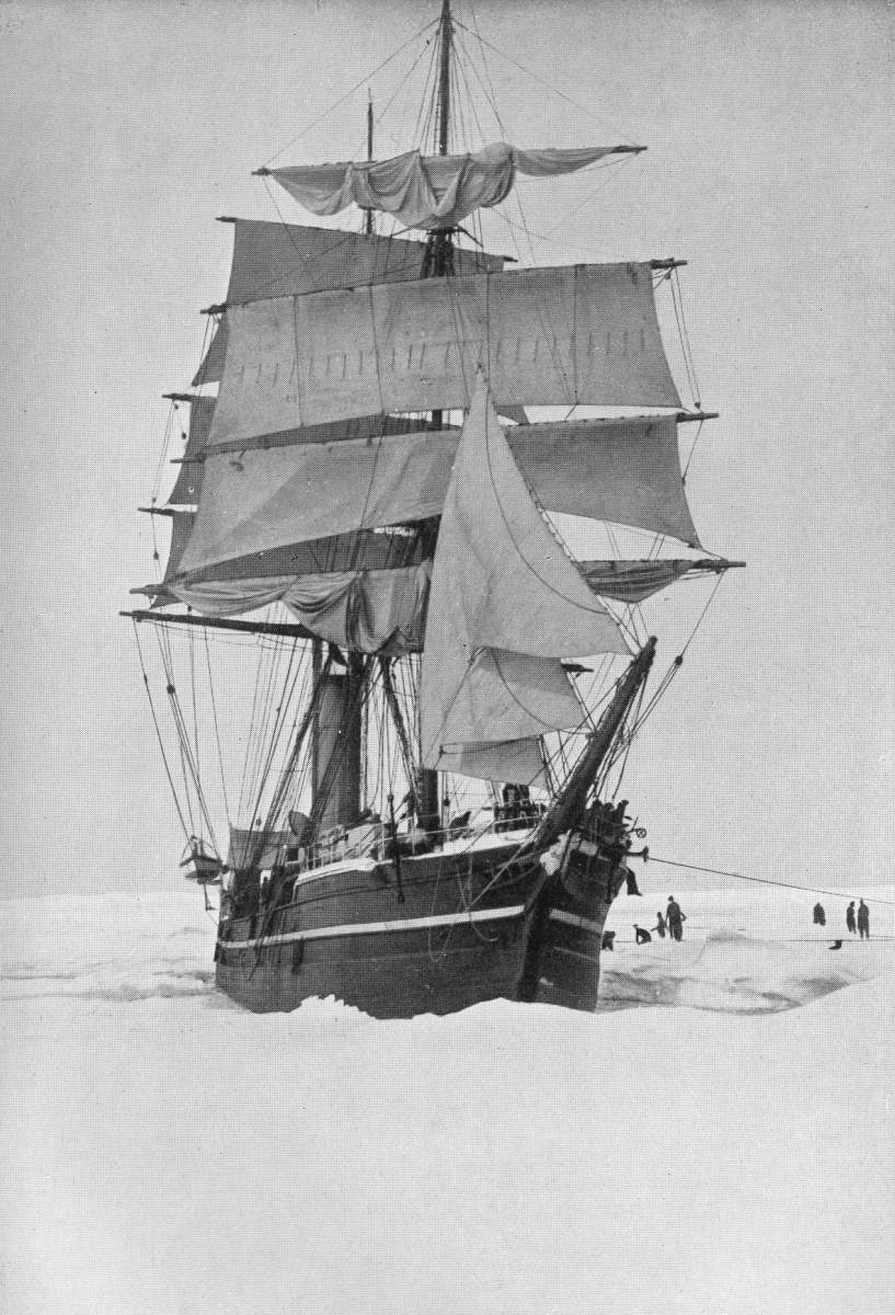 The Terra Nova icebound